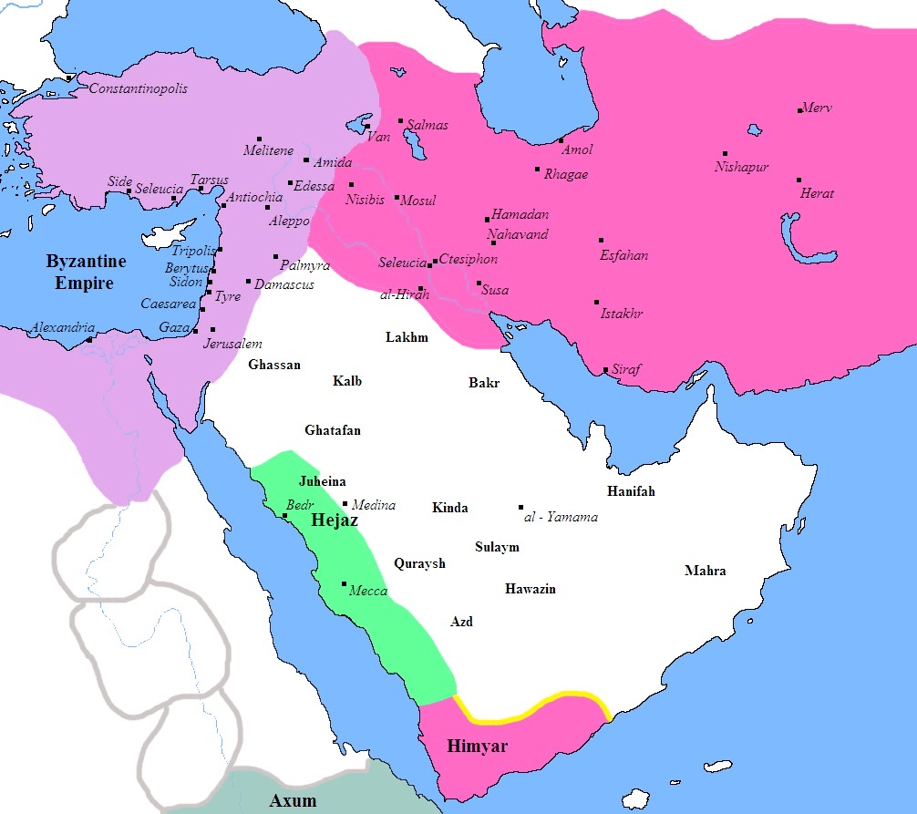 Arabian tribes before the rise of islam